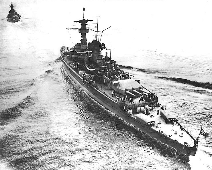 Deutschland (German armored ship, 1933-1945) Underway in the English Channel in April 1939, with a sister ship (either Admiral Scheer or Admiral Graf Spee) ahead. Deutschland was renamed Lützow on 15 November 1939.